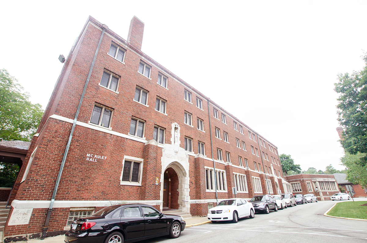 Carlow University McAuley Hall and driveway